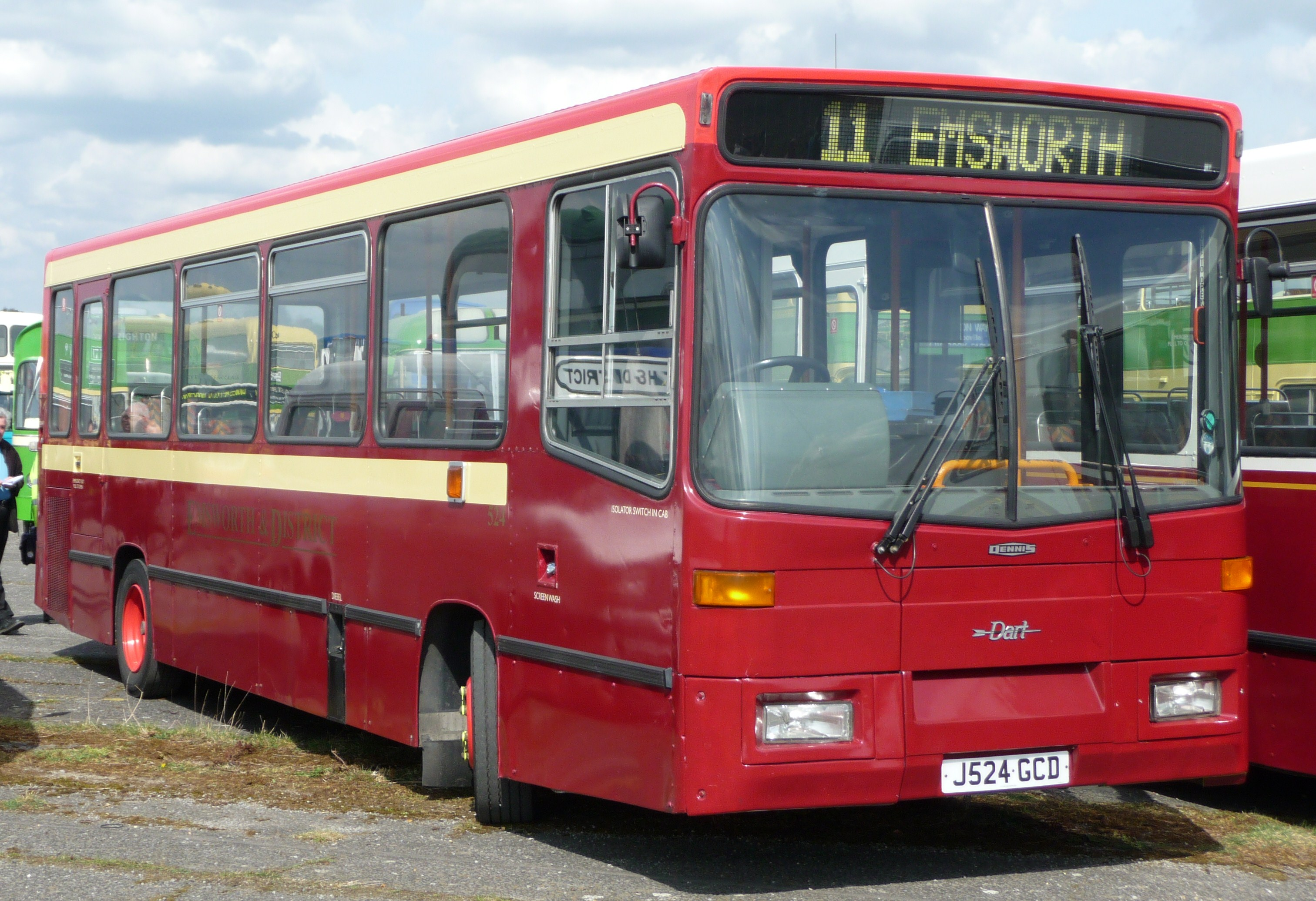 Emsworth & District's 524 (J524 GCD), a Dennis Dart/Alexander Dash, at the 2009 Cobham bus rally at Wisley Airfield. It's one of the buses chosen by the company to wear historic local liveries, 524 being the Hants & Sussex variant.